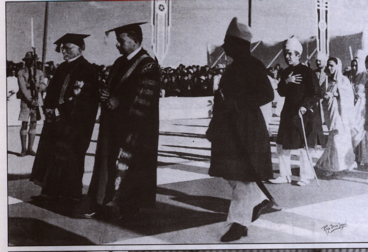 Akabar Hydari and Vice-Chancelor of Osmani University (both in garb) inaugurating the Arts College Building 1937